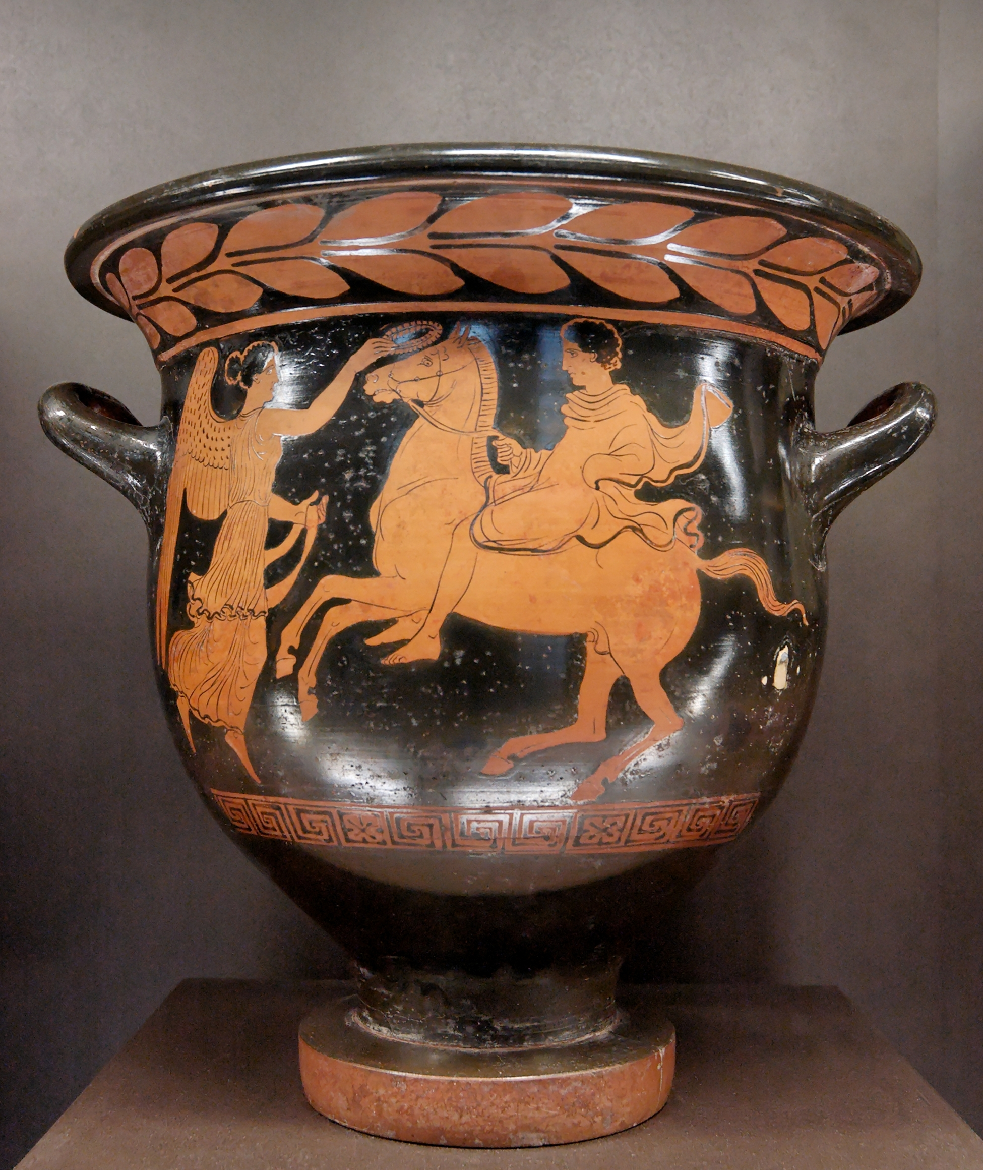 Young rider crowned by a winged Nike (Victory). Side A of an Apulian red-figure bell-krater.